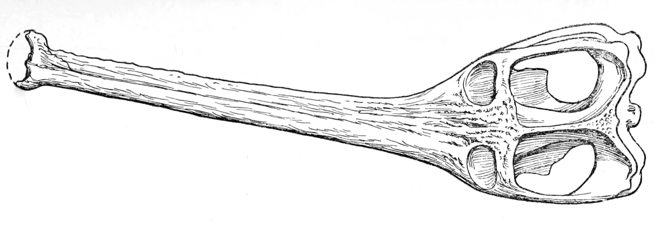 Skull of Mycterosuchus nasutus (formerly Steneosaurus).[